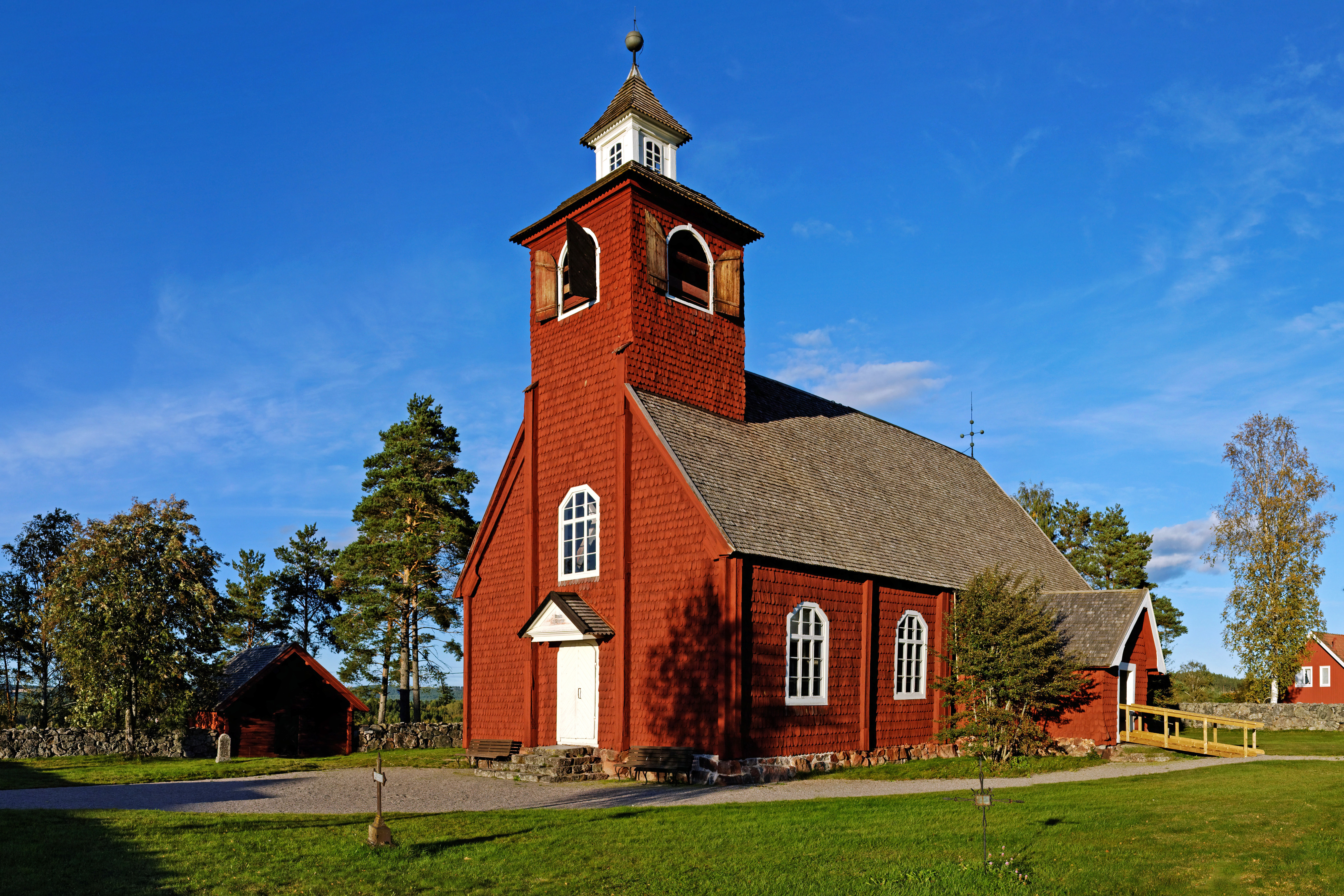 Enviken's old church.